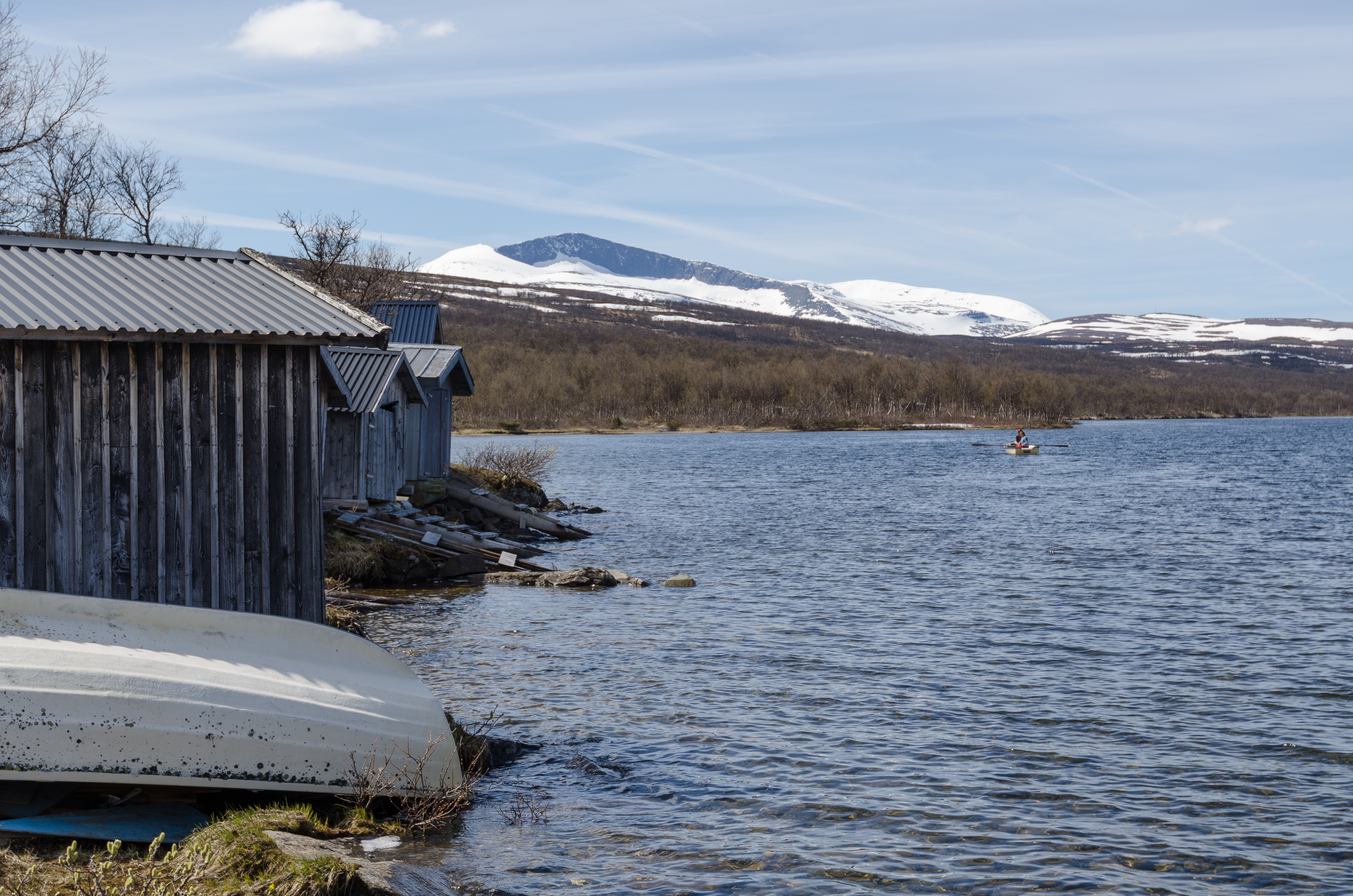 Boathouses at lake Kesusjön, Berg Municipality. In the background, mount Helags.